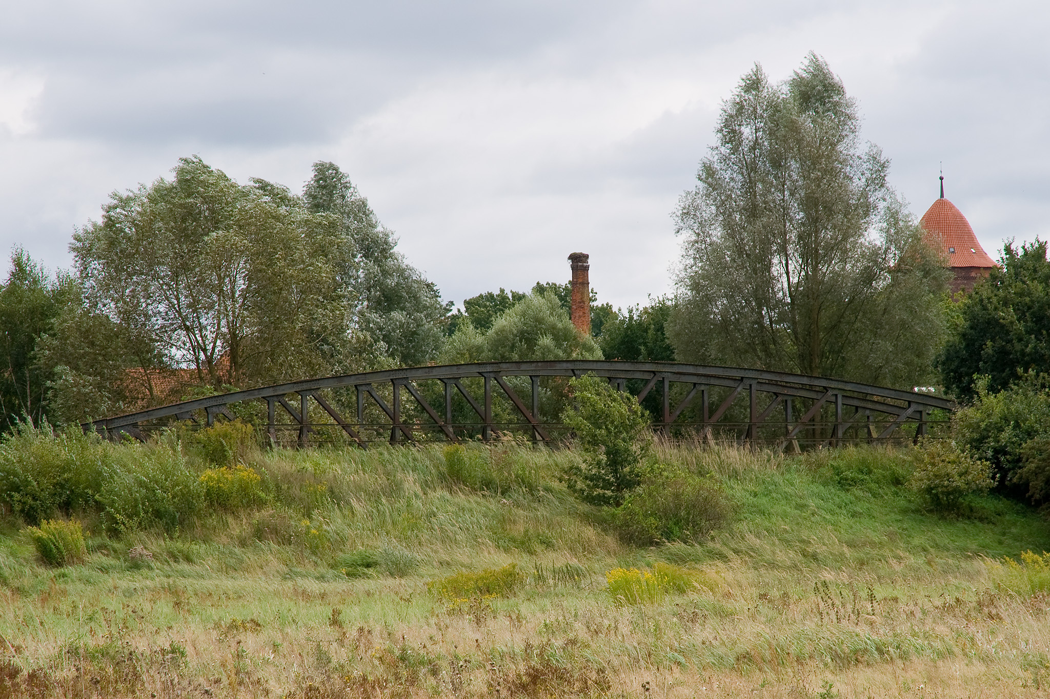 Railway bridge on the rail causeway of the railway line Dannenberg-Luechow (Jeetzeltalbahn) in Dannenberg (Elbe) in the district Luechow-Dannenberg in Lower Saxony, Germany.